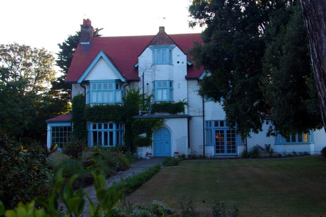 Martincross in Sheringham. This elegant house on the corner of The Boulevard and St Nicholas Place was the home of Ralph Vaughan Williams during 1919. Later it was divided into flats, one of which was occupied by the writer Patrick Hamilton.